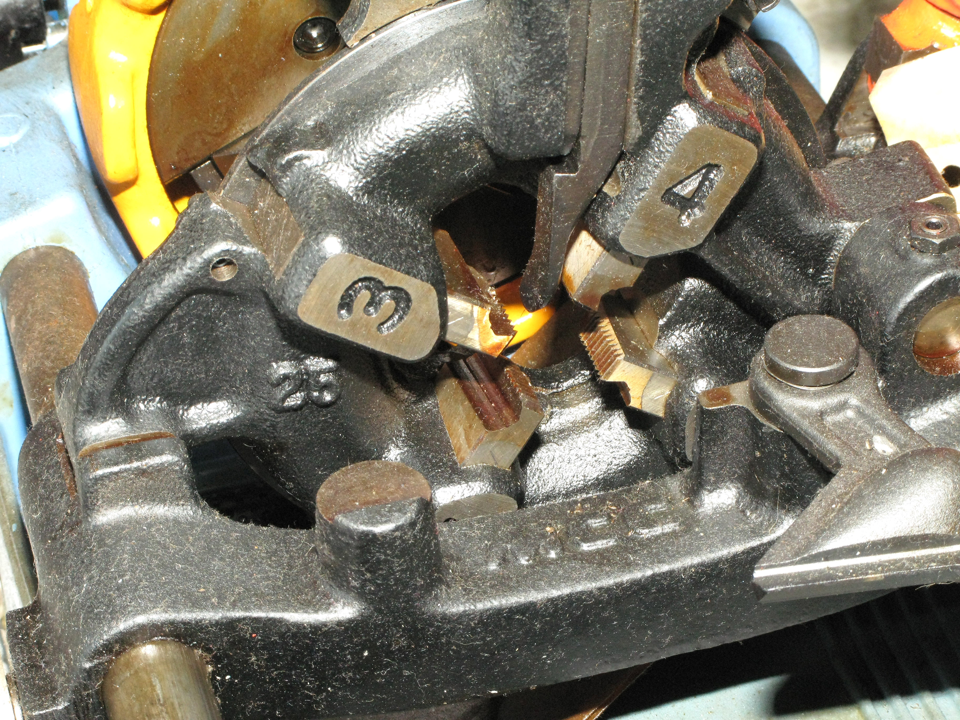 Pipe Threading Machine Die Head&Dies&Reamer MCC brand made in japan